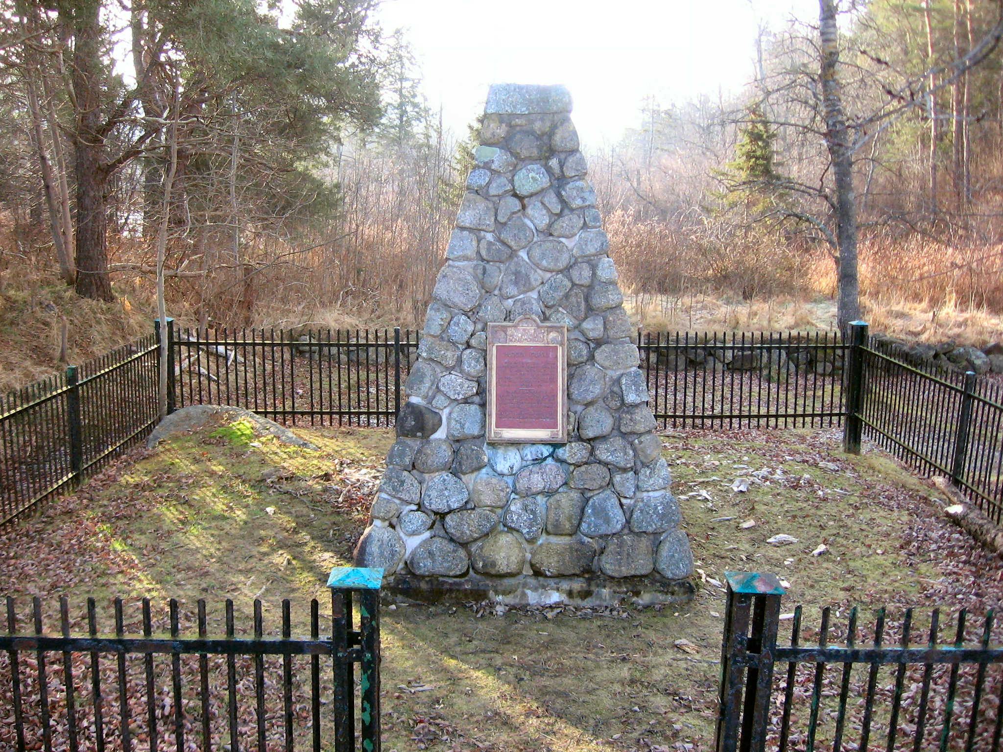 Bloody Creek Monument. The citation reads (in English): "Commemorating two combats between garrisons of Annapolis Royal and allied French and Indians in the half century conflict for possession of Acadia: on the north bank of the Annapolis River, 10th June, 1711; and, here, 8th December, 1757."